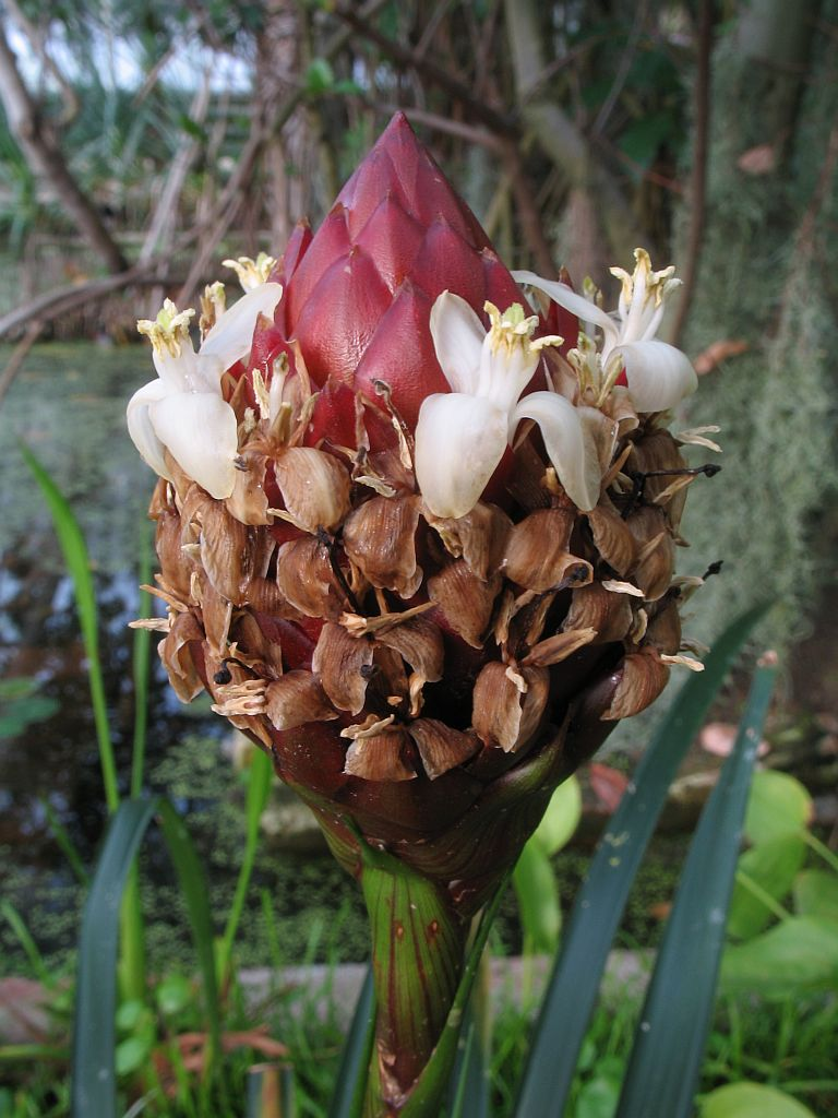 Guzmania farciminiformis in cultivation at the Botanical Garden of Heidelberg, Germany.